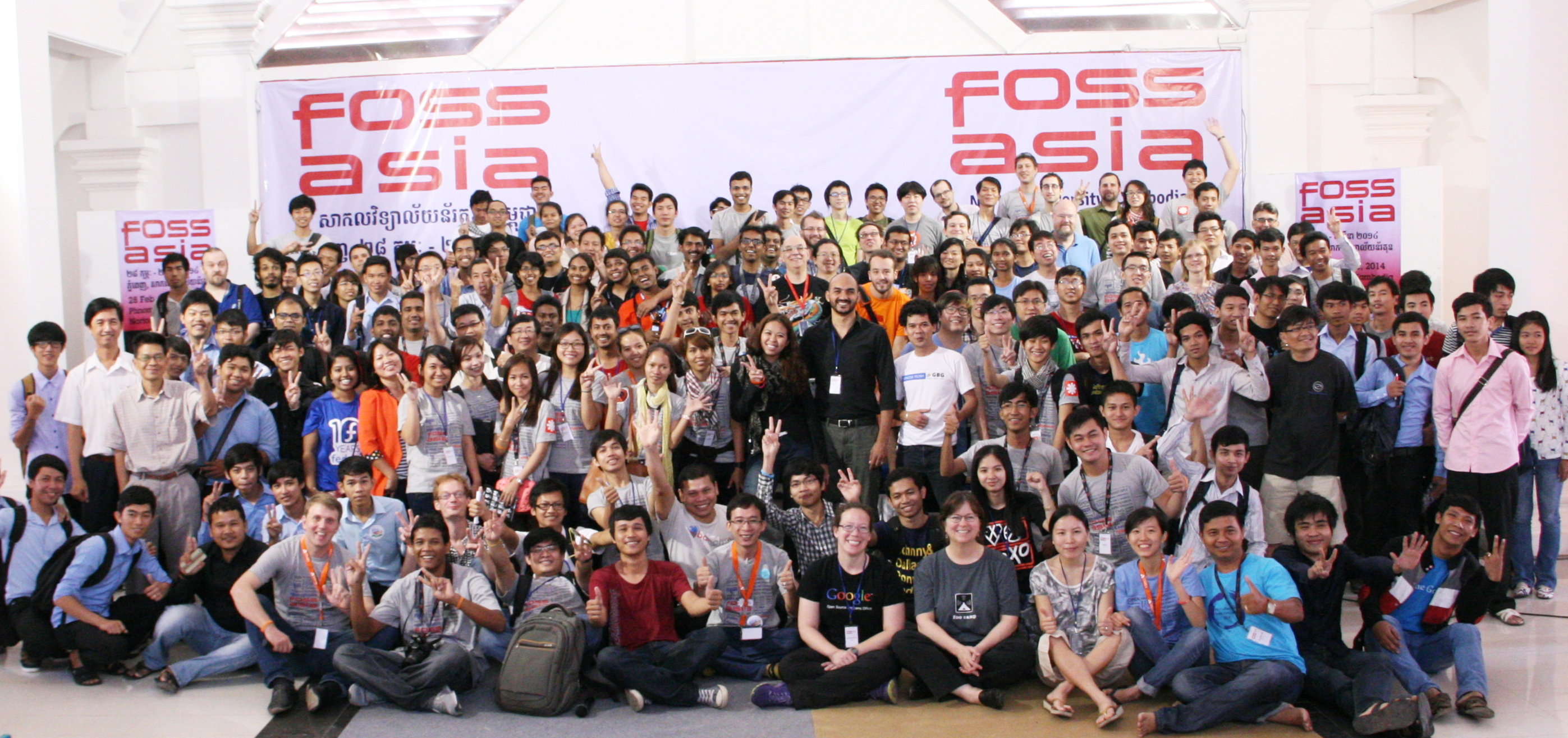 FOSSASIA 2014, Group Photo